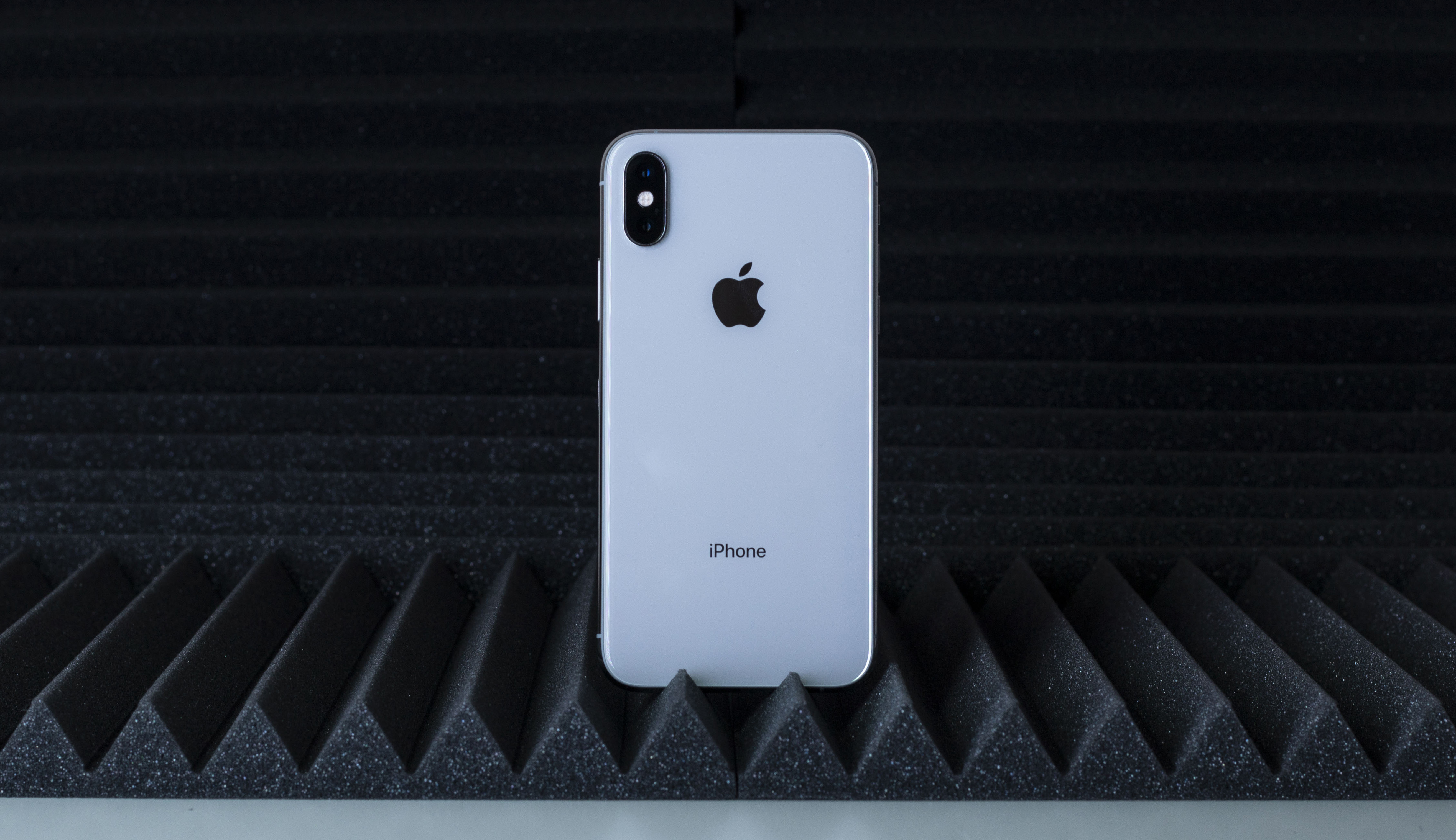 iPhone xs white silver apple phone